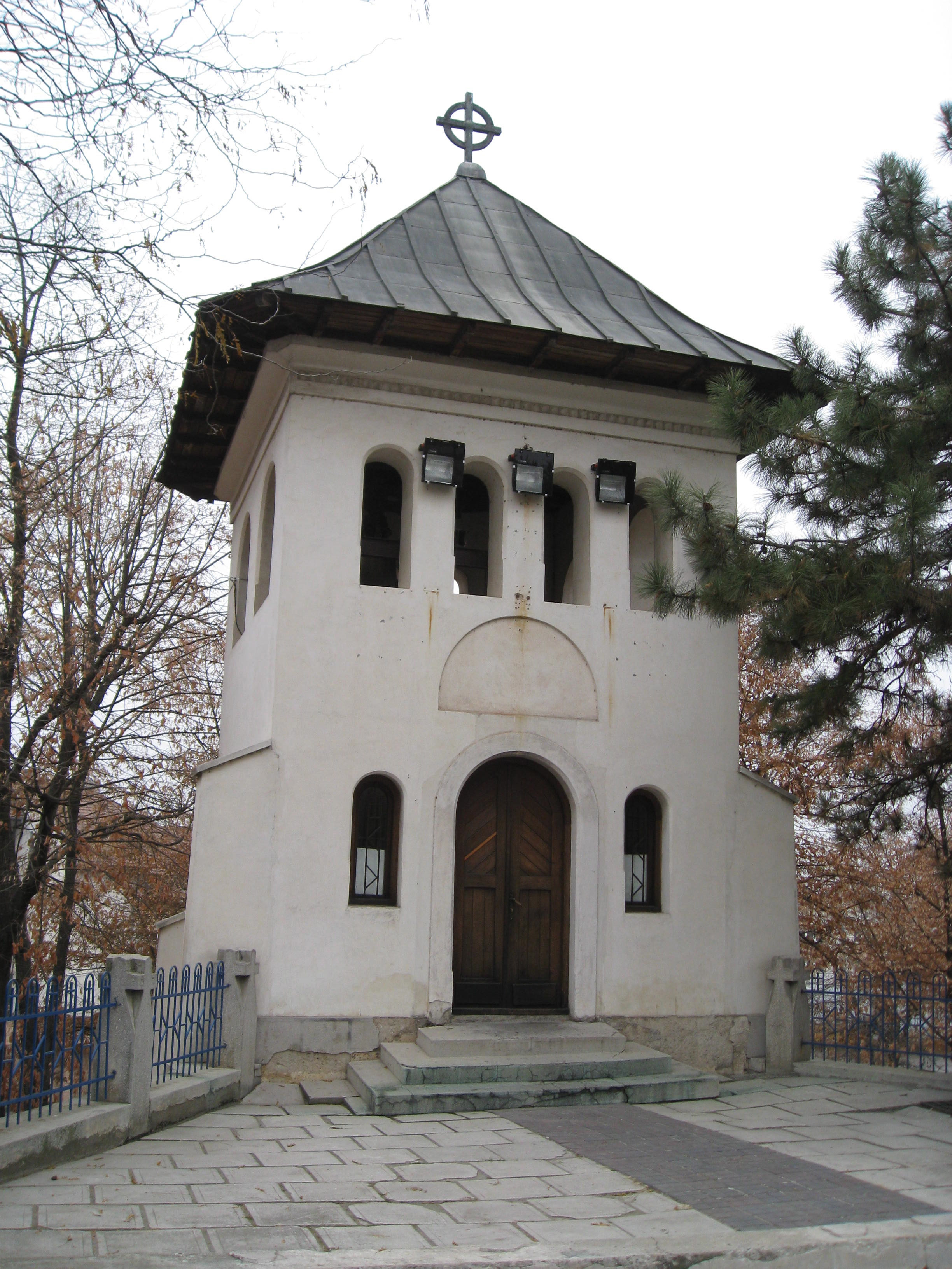 Bell tower, St. Demetrius' Cathedral, Craiova, Romania